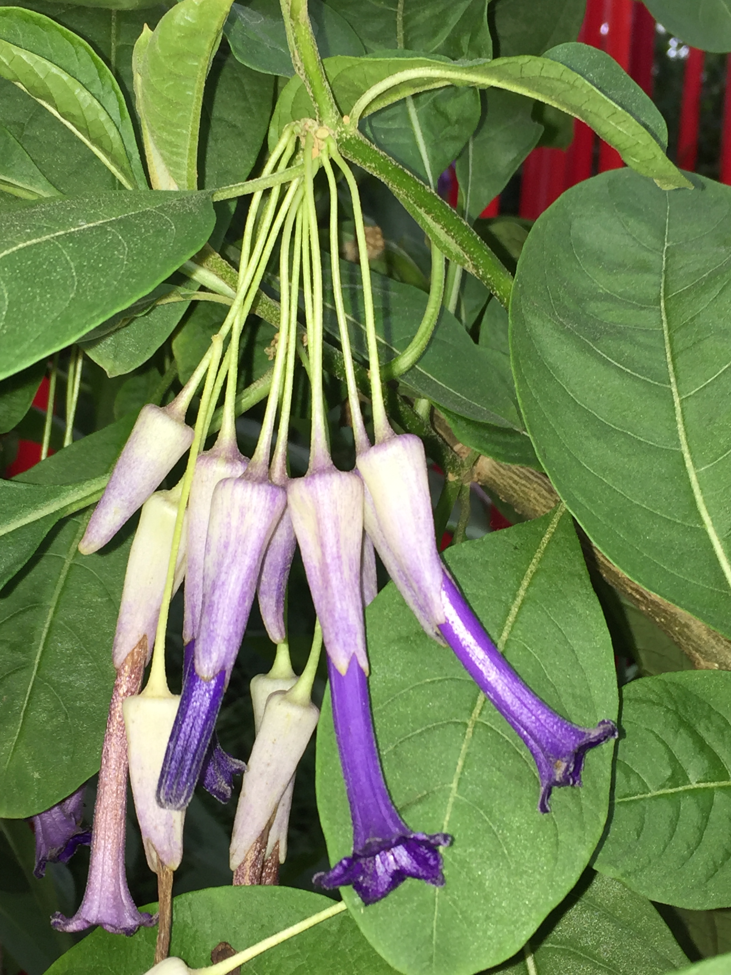 Cultivated specimen of this attractive Solanaceous shrub/small tree (native to Ecuador) growing in a large bed/border in the Temperate House of the Royal Botanic Gardens, Kew, Surrey.